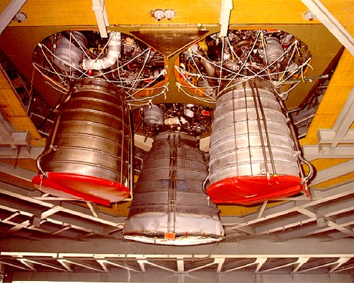 MPTA-098 detail showing three Space Shuttle Main Engines installed on the Space Shuttle Main Propulsion Test Article.